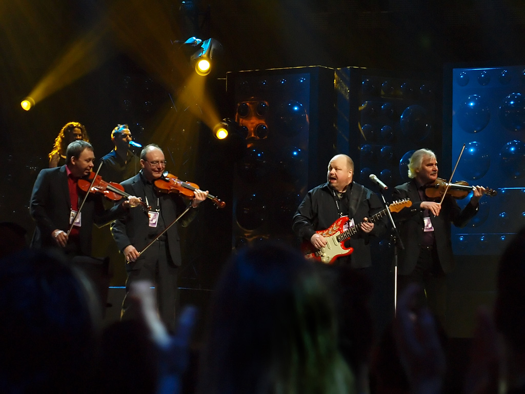 Swedish ensemble Orsa Spelmän performing at Melodifestivalen 2010, Sandviken, Sweden.